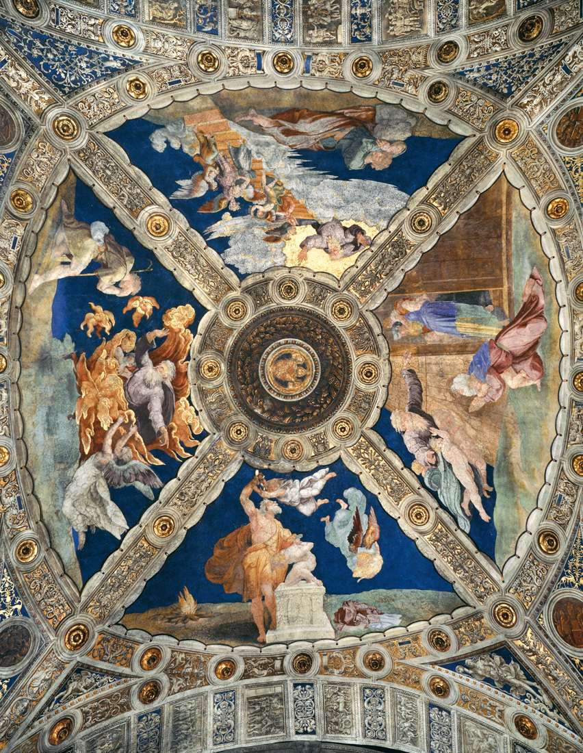 Ceiling